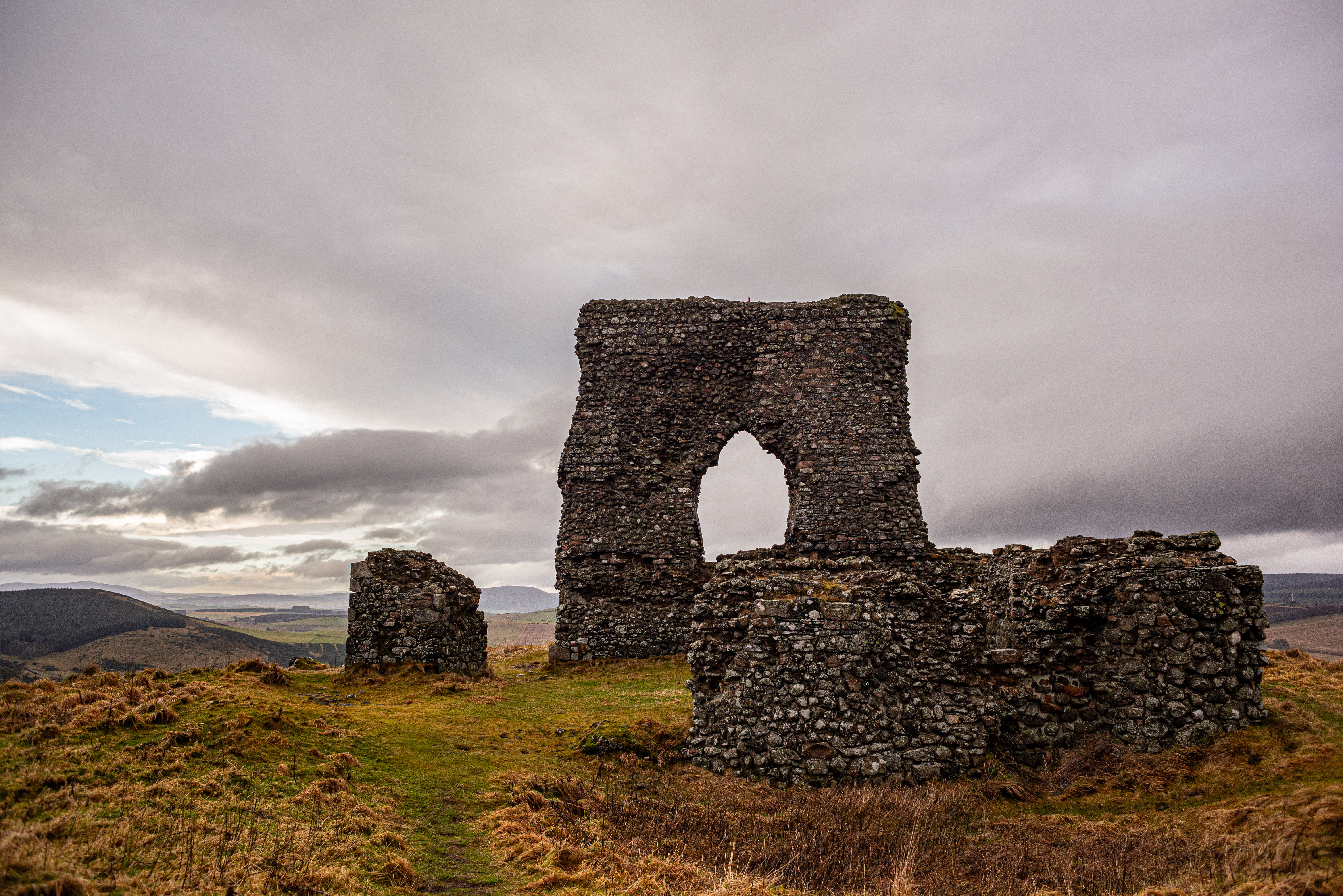 Dunnideer (Dunnydeer) hill fort in December 2019